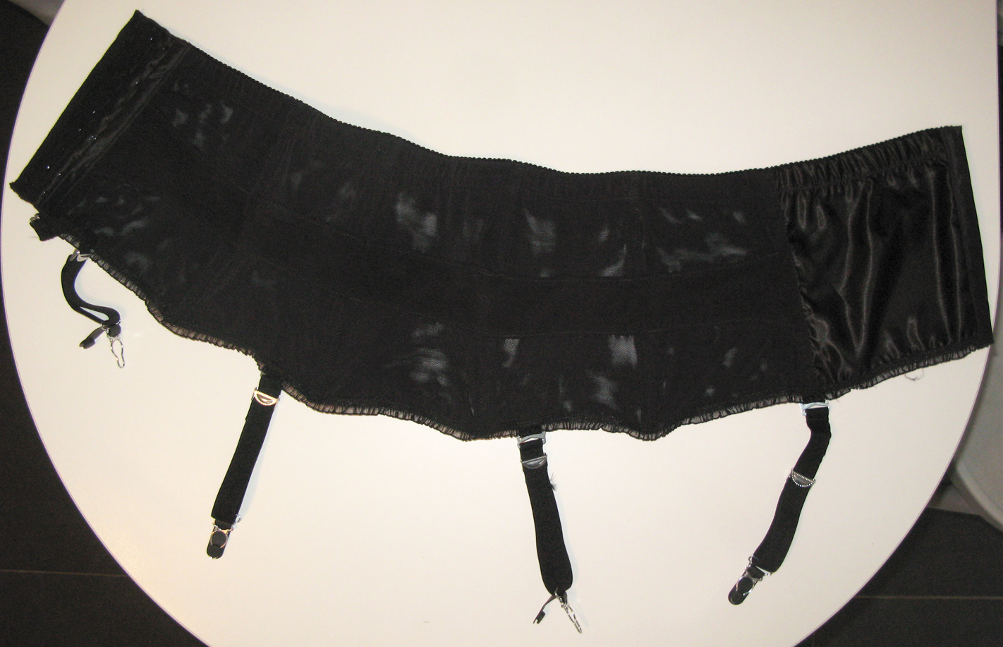 Waspie (Garter belt)